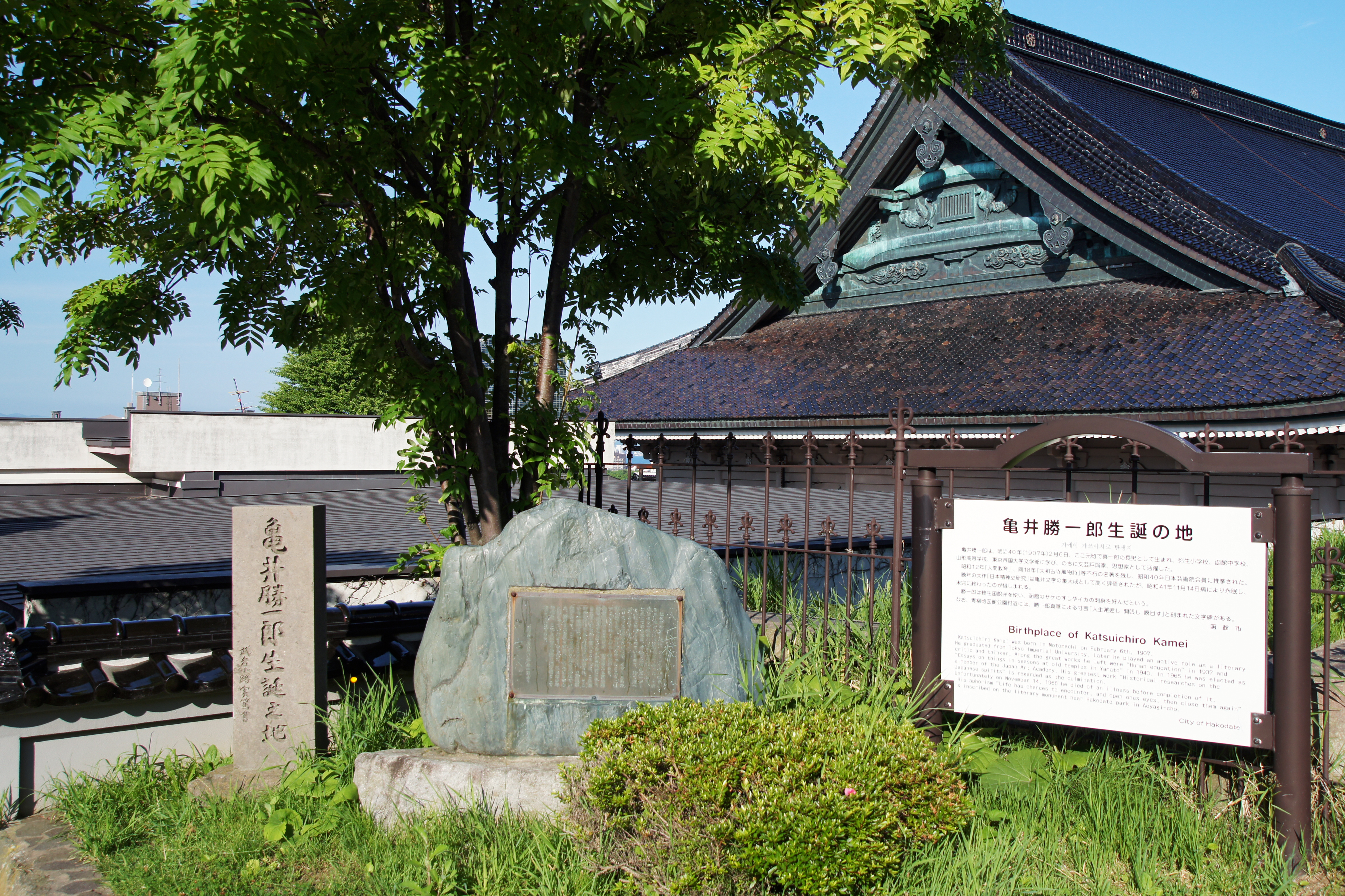 Birthplace of Katsuichiro Kamei at Motomachi Hakodate, Hokkaido prefecture, Japan